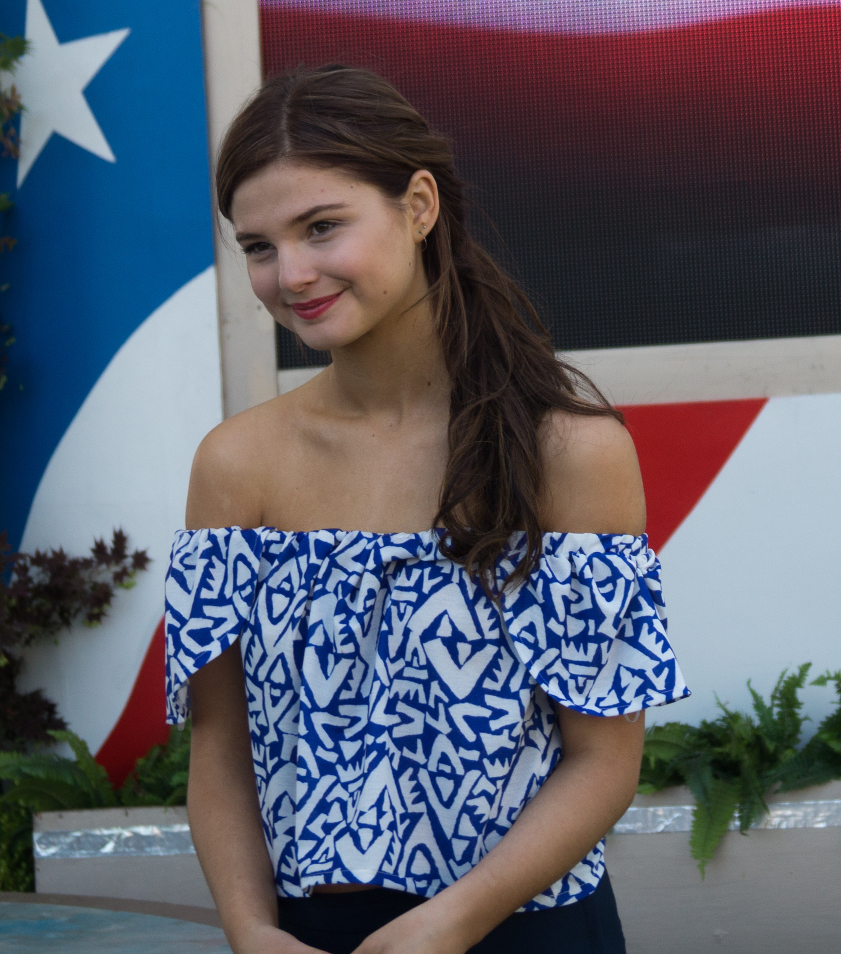 Stefanie Scott Various pictures taken during the National Memorial Day Concert Open Dress Rehearsal of various speakers, performers and stage set up on Saturday, May 24, 2015 at the U.S. Capitol in Washington, DC by Mary Nichols (aka DJ Fusion of the FuseBox Radio Broadcast). Pictures were taken with a Sony A58 camera with various lenses.